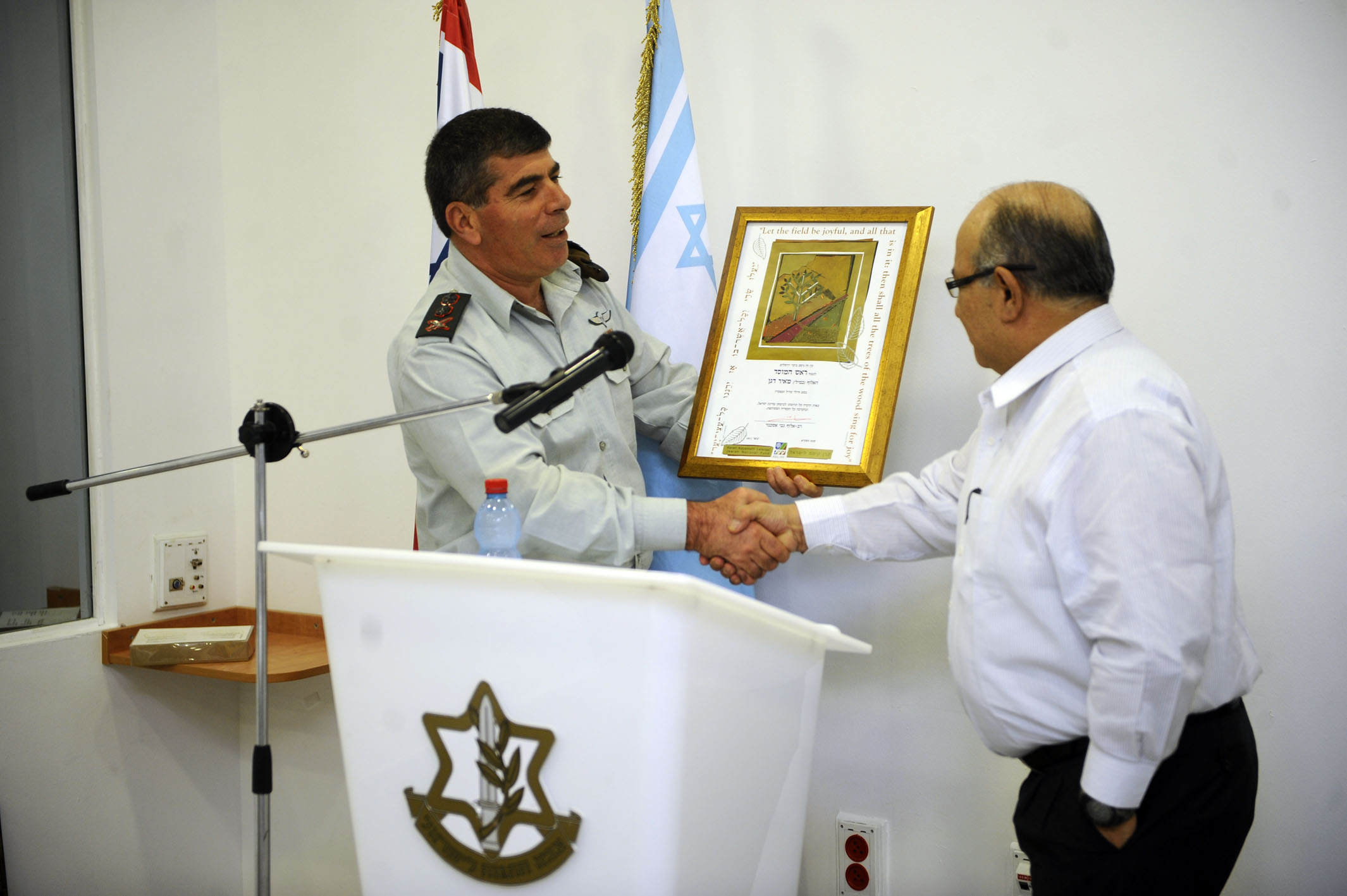 January 10, 2011 Today, the IDF Chief of General Staff, Lt. Gen. Gabi Ashkenazi, as well as members of the General Staff parted with the outgoing Director of the Mossad Intelligence Agency, Maj. Gen (res.) Meir Dagan in a celebratory lunch at the Rabin base in Tel Aviv. The Chief of Staff thanked the outgoing Mossad Director for his combined effort and said, "During the past eight years, as head of the Mossad, you were on the forefront of achievement. You led the agency during a unique and challenging period and contributed exceptionally, with most of your achievements unknown. Over the eight years we've worked together collaboratively and with the mutual understanding that we are working towards a shared and higher goal--the security of the State of Israel." The outgoing Director thanked the Chief of Staff for the years of cooperation and wished him and the General Staff luck in the rest of their endeavors. Pictured: The Chief of Staff grants the outgoing Mossad Director a diploma in the name of IDF soldiers and commanders certifying the planting of a tree at the Jewish National Fund forest in Maj. Gen. (res.) Meir Dagan's name. Photography: Cpl. Ori Shifrin, IDF Spokesperson's Unit הרמטכ"ל, רא"ל אשכנזי, וחברי פורום המטה הכללי נפרדו היום (ב') מראש המוסד היוצא, אלוף (במיל') מאיר דגן, בארוחת צהריים חגיגית בבסיס רבין בת"א. הרמטכ"ל הודה לראש המוסד היוצא על העבודה המשותפת ואמר כי "בשמונה השנים האחרונות, כראש המוסד, היית בחזית העשייה, הובלת את הארגון בתקופה מיוחדת ומאתגרת ותרמת תרומה ייחודית שרובה לא ידועה. בשנים האחרונות עבדנו יחד בשיתוף פעולה ומתוך הבנה שאנחנו משרתים מטרה משותפת ועליונה- ביטחונה של מדינת ישראל". ראש המוסד היוצא הודה לרמטכ"ל על שיתוף הפעולה ואיחל לו ולחברי פורום מטכ"ל הצלחה בהמשך העשייה החשובה. בתמונה: הרמטכ"ל מעניק לראש המוסד היוצא, בשם מפקדי וחיילי צה"ל, תעודה המציינת נטיעת עץ לכבודו של האלוף (מיל') דגן, ביערות הקרן הקיימת לישראל. צילום: רב"ט אורי שיפרין, דובר צה"ל